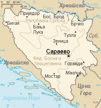 Map of Bosnia and Herzegovina on Macedonian.